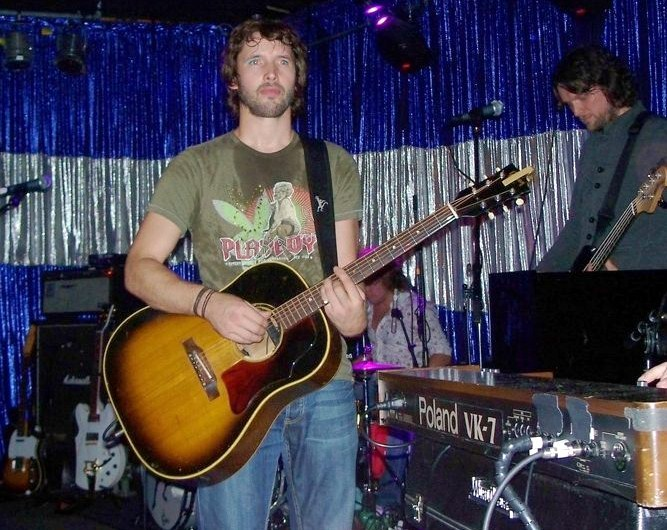 James Blunt at Spaceland, Los Angeles, CA